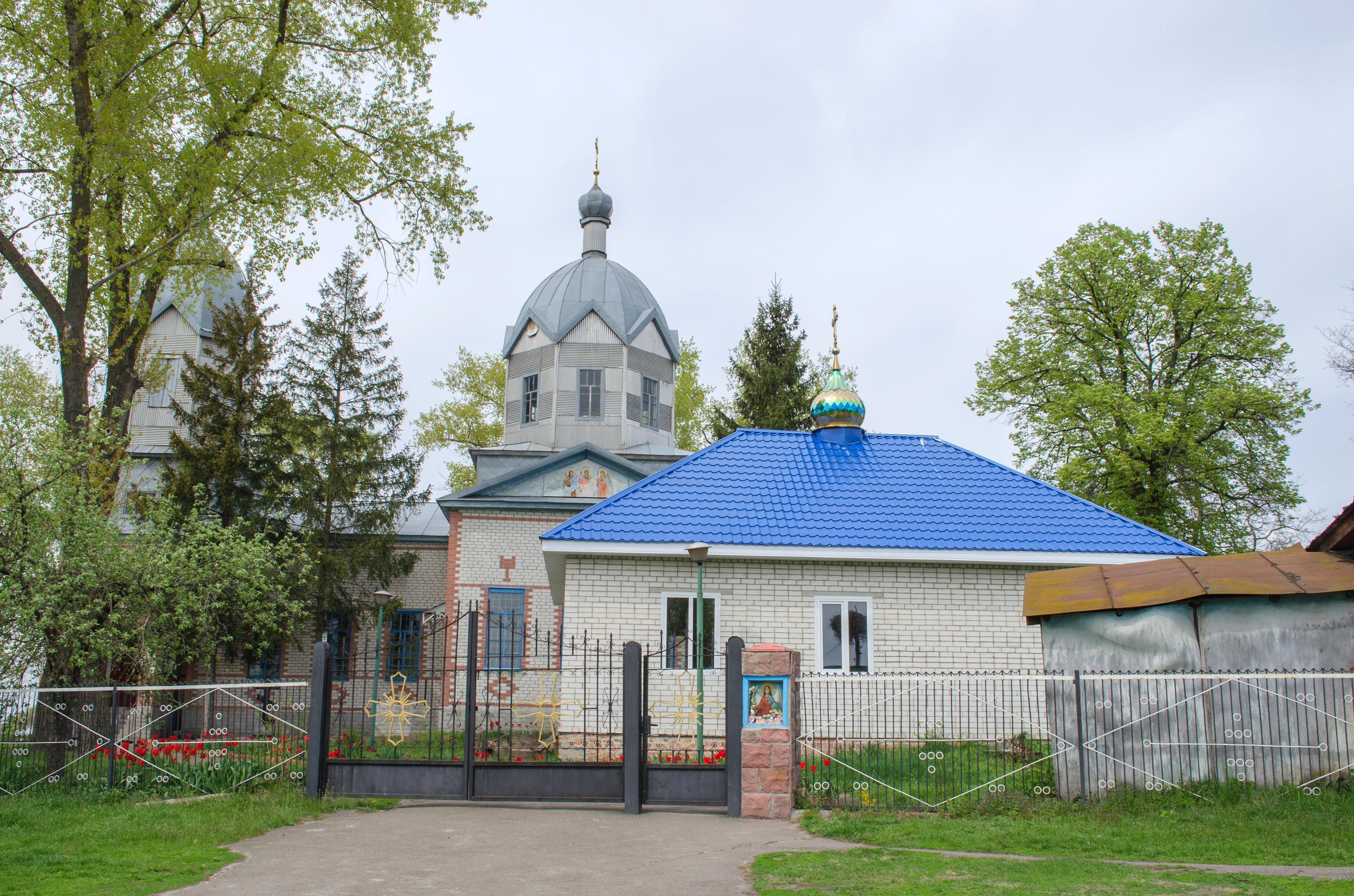 v.Brusyliv, Chernihiv Raion, Chernihiv Oblast, Ukraine